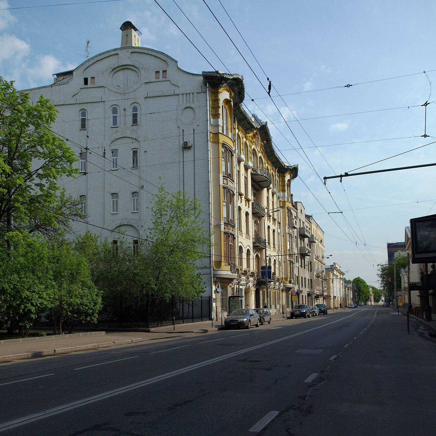 Prechistenka Street, Moscow. The Isakov House designed by Lev Kekushev, completed in 1906.